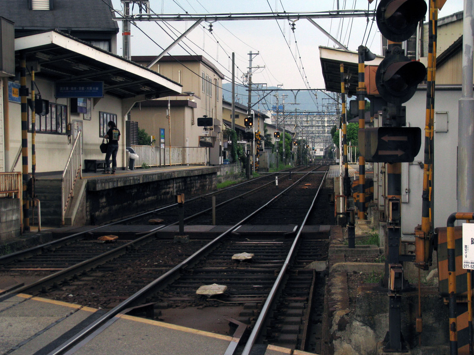 Nishiki Station on Keihan Ishiyama Sakamoto Line